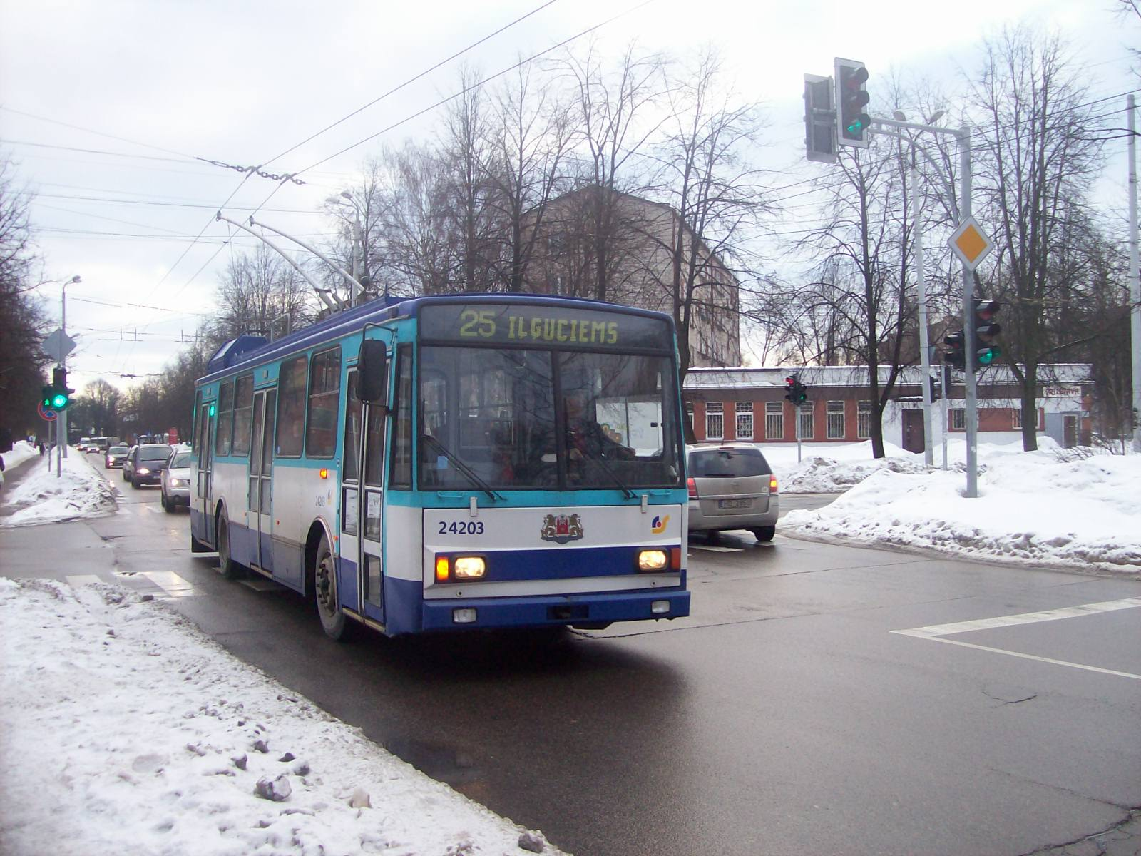 Trolleybus Škoda 14TrM in Riga